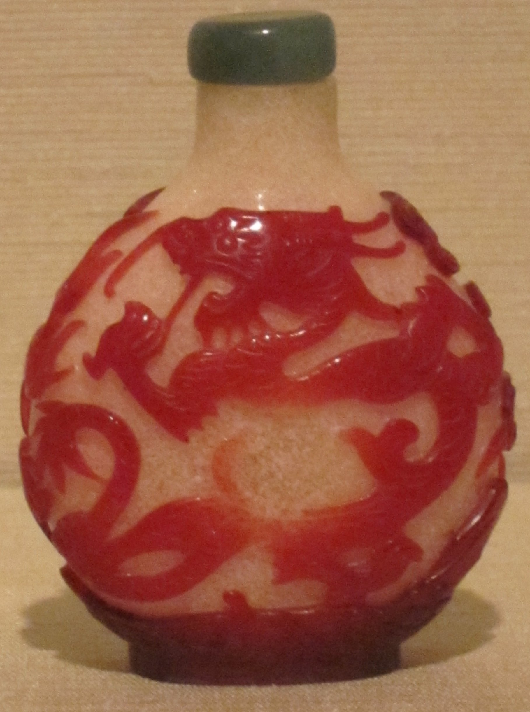 Chinese snuff bottle, 18th century, glass bottle with jadeite stopper, Honolulu Museum of Art